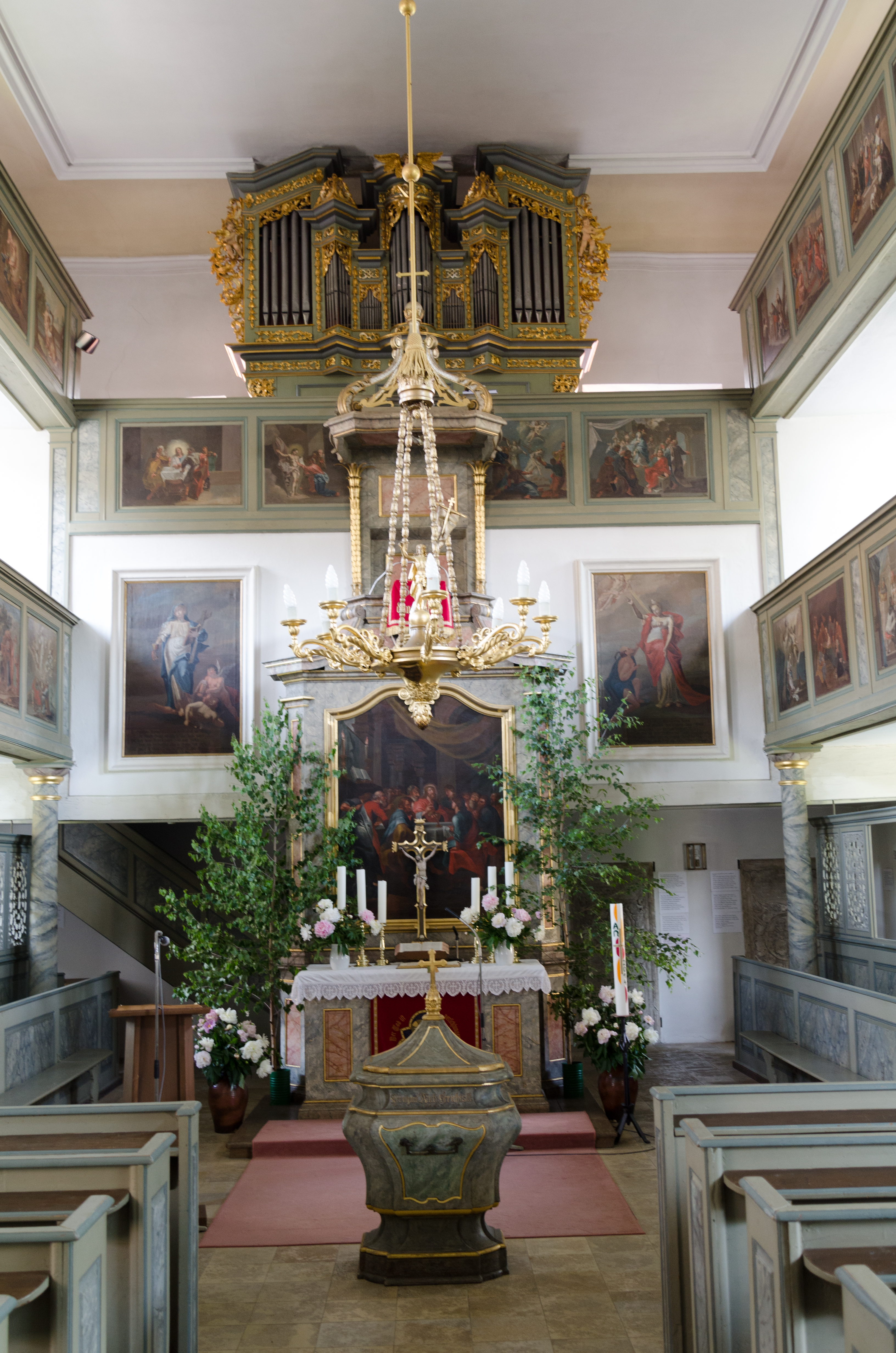 Rügland, St. Margaretha